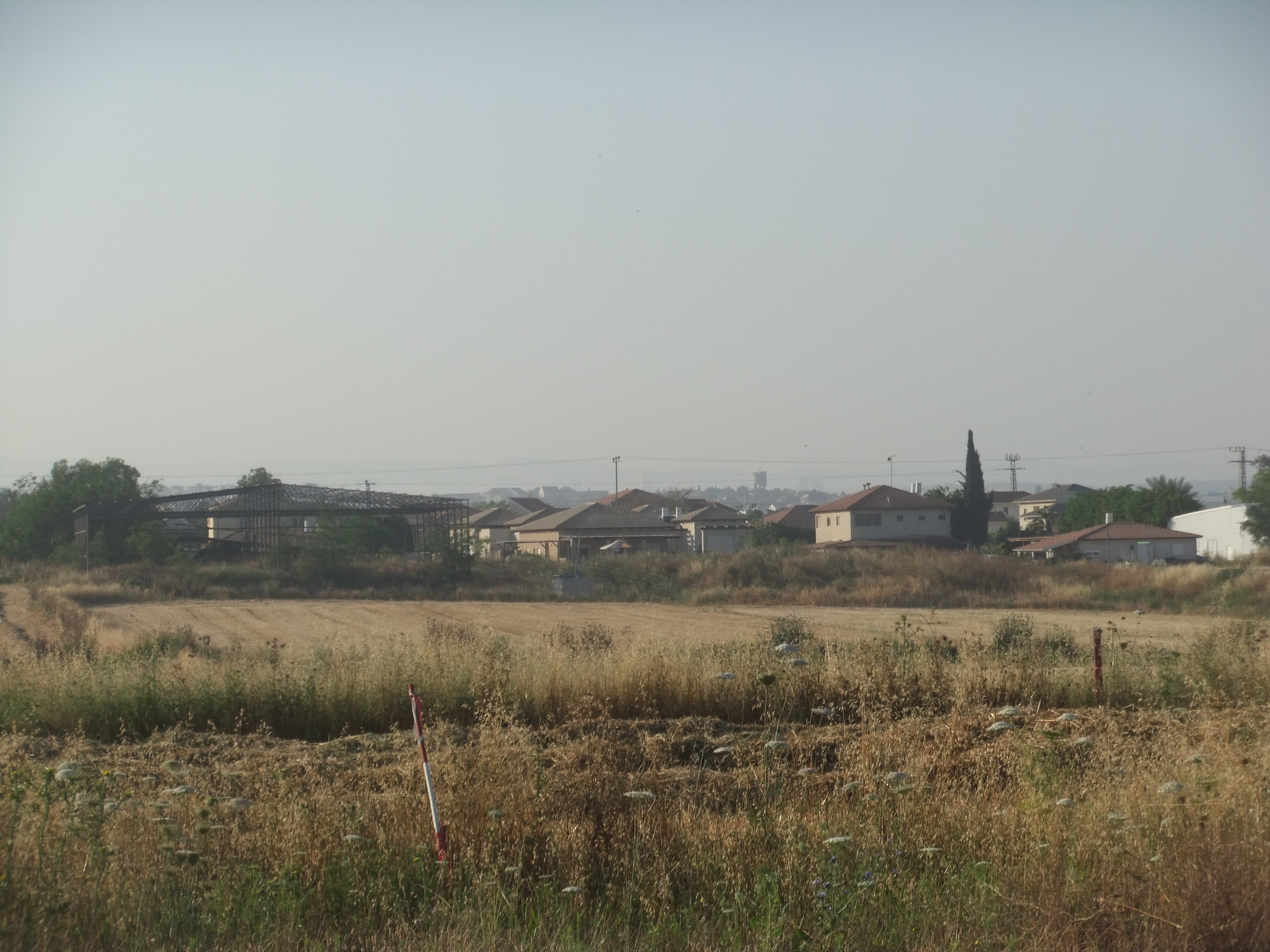 Tirat Yehuda from the west. Behind is the Shoham water tower